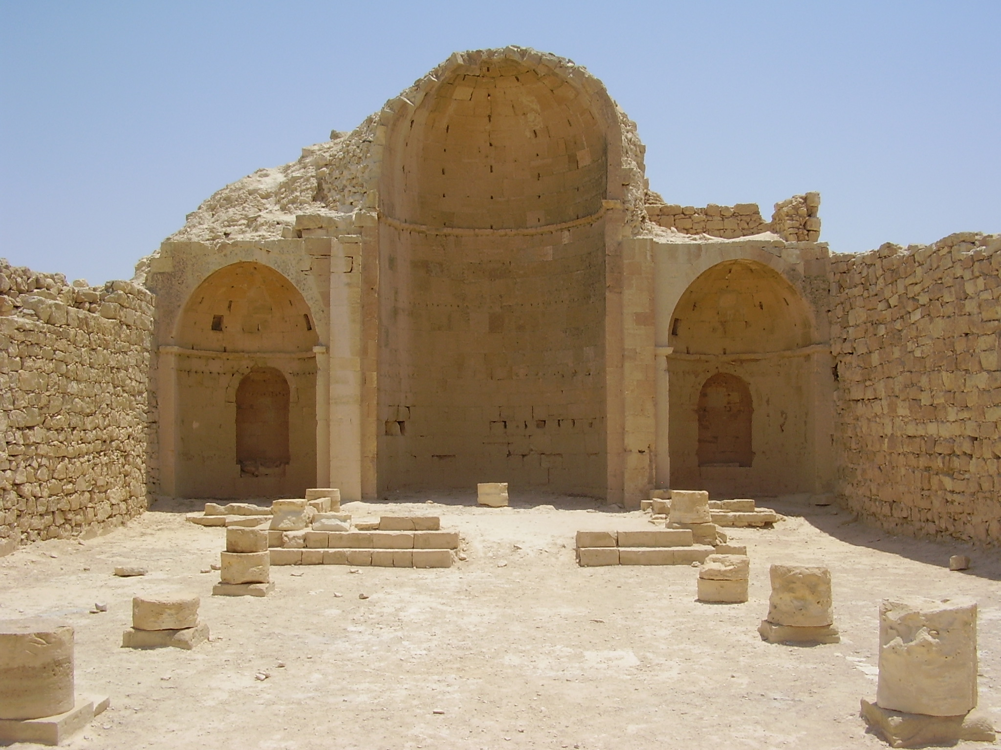 Northern church in Shivta